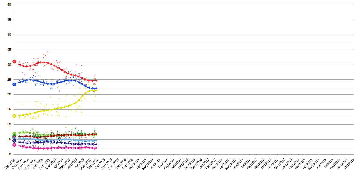 Opinion polling 15-day average leading up to the Next Swedish general election